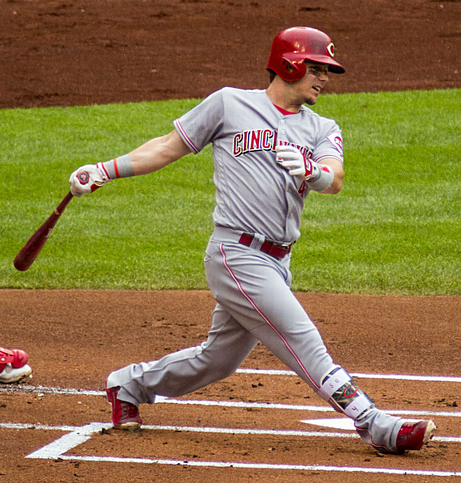 Reds player Scooter Gennett in St.Louis 2017